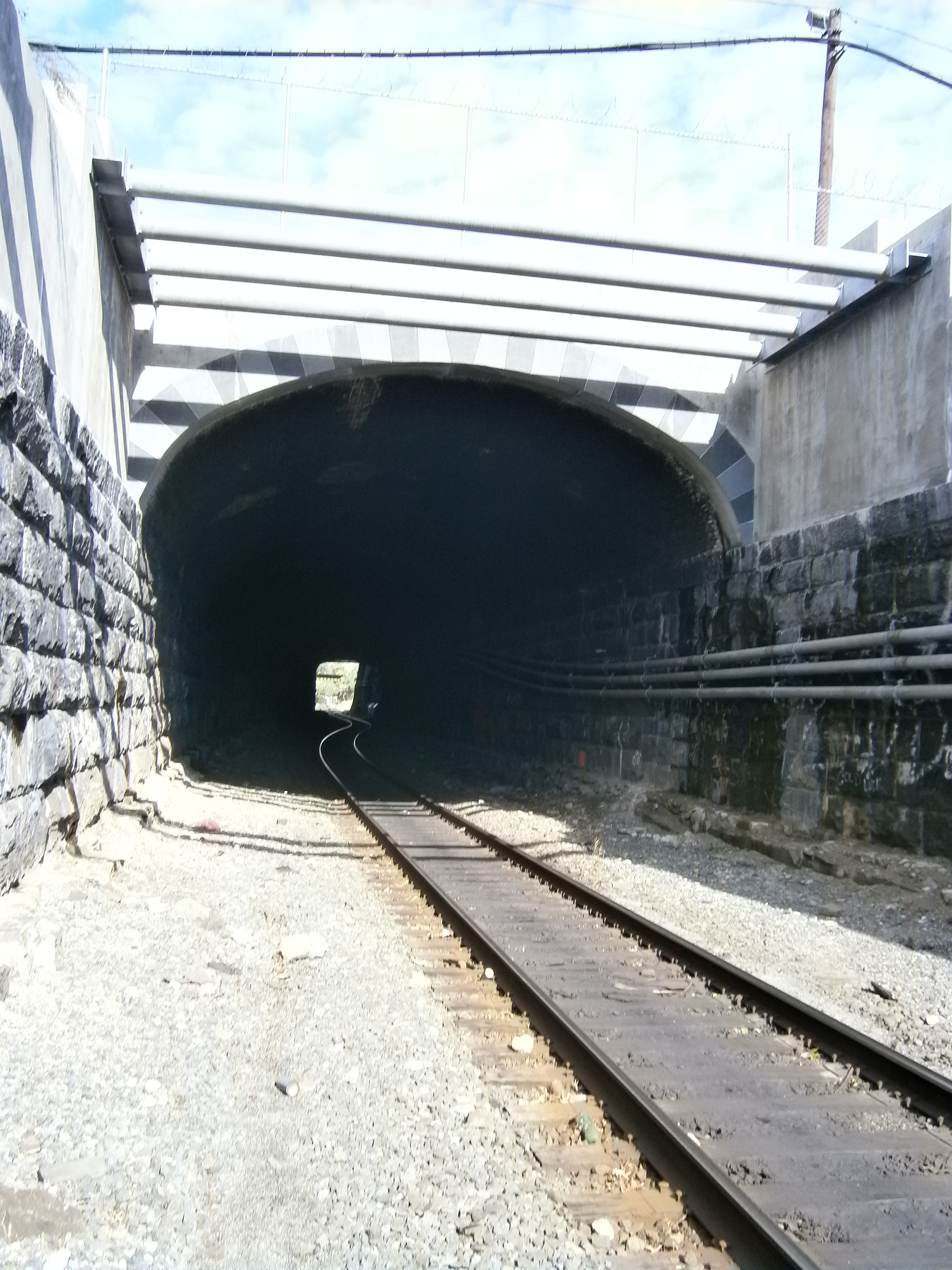 National Docks Secondary tunnel crosses under the PATH rapid transit system in Jersey City, rebulit for double stacking